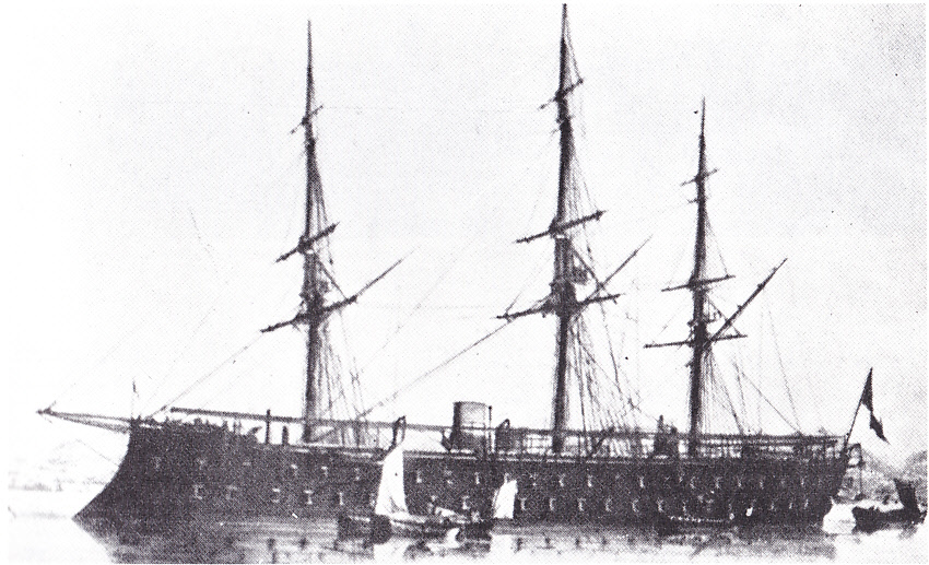 French ironclad Magenta.